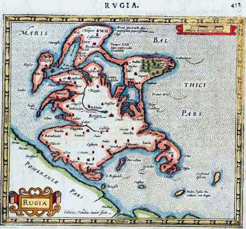 map from Gerardus Mercator (1512-1594)